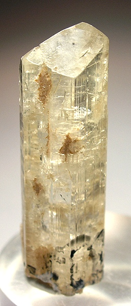 Phenakite Locality: Anjanabonoina pegmatites, Mount Ikaka, Ambohimanambola Commune, Betafo District, Vakinankaratra Region, Antananarivo Province, Madagascar (Locality at ) Superb crystal, and unusually large for the locality! Phenakites from this location show excellent crystallography and are thus highly desirable. In person it has a straw color. 3.1 x 1 x 0.7 cm